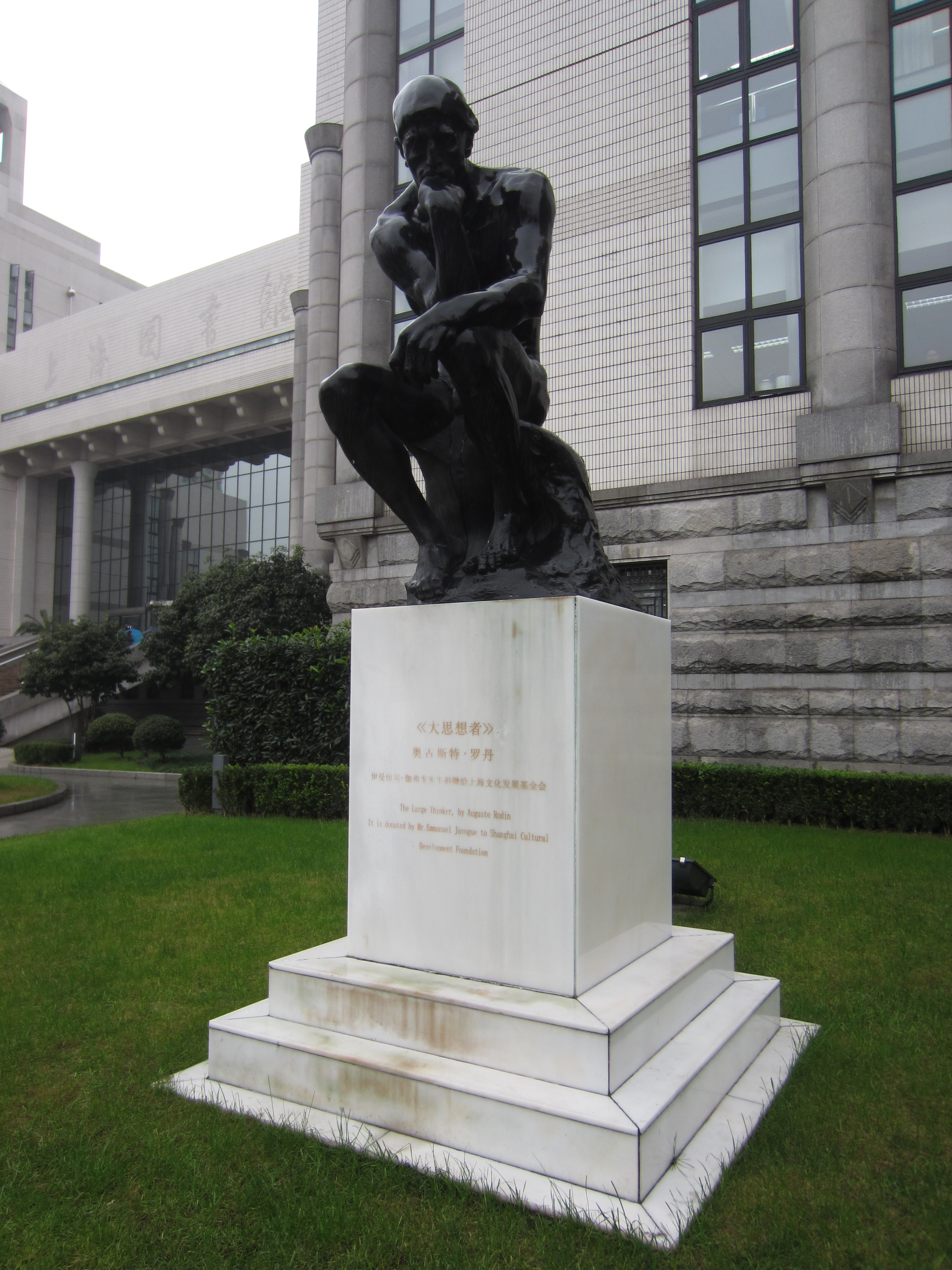 Shanghai Library, China (2015)